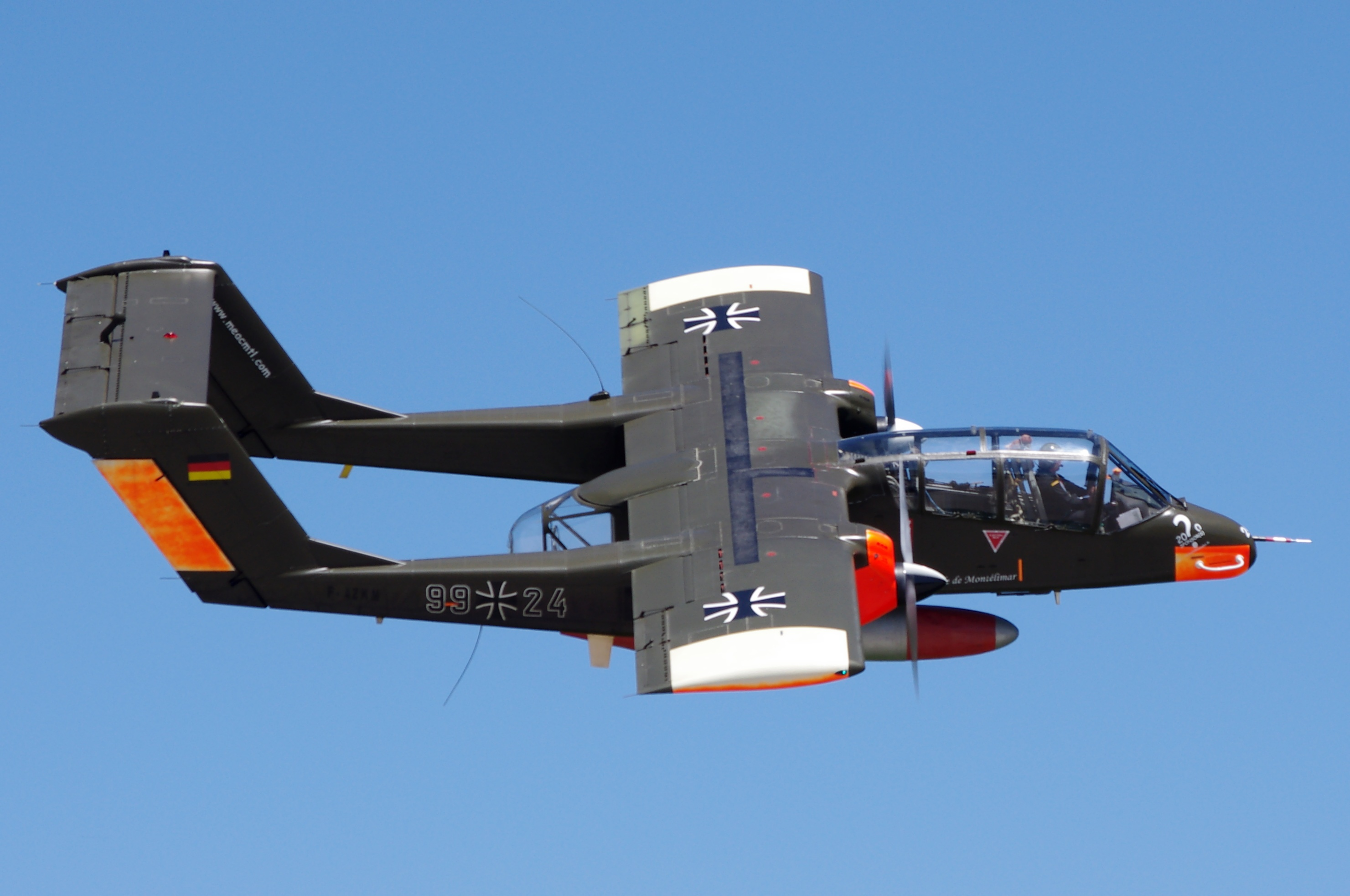 OV-10 Bronco at Aircraft Picnic in Kraków